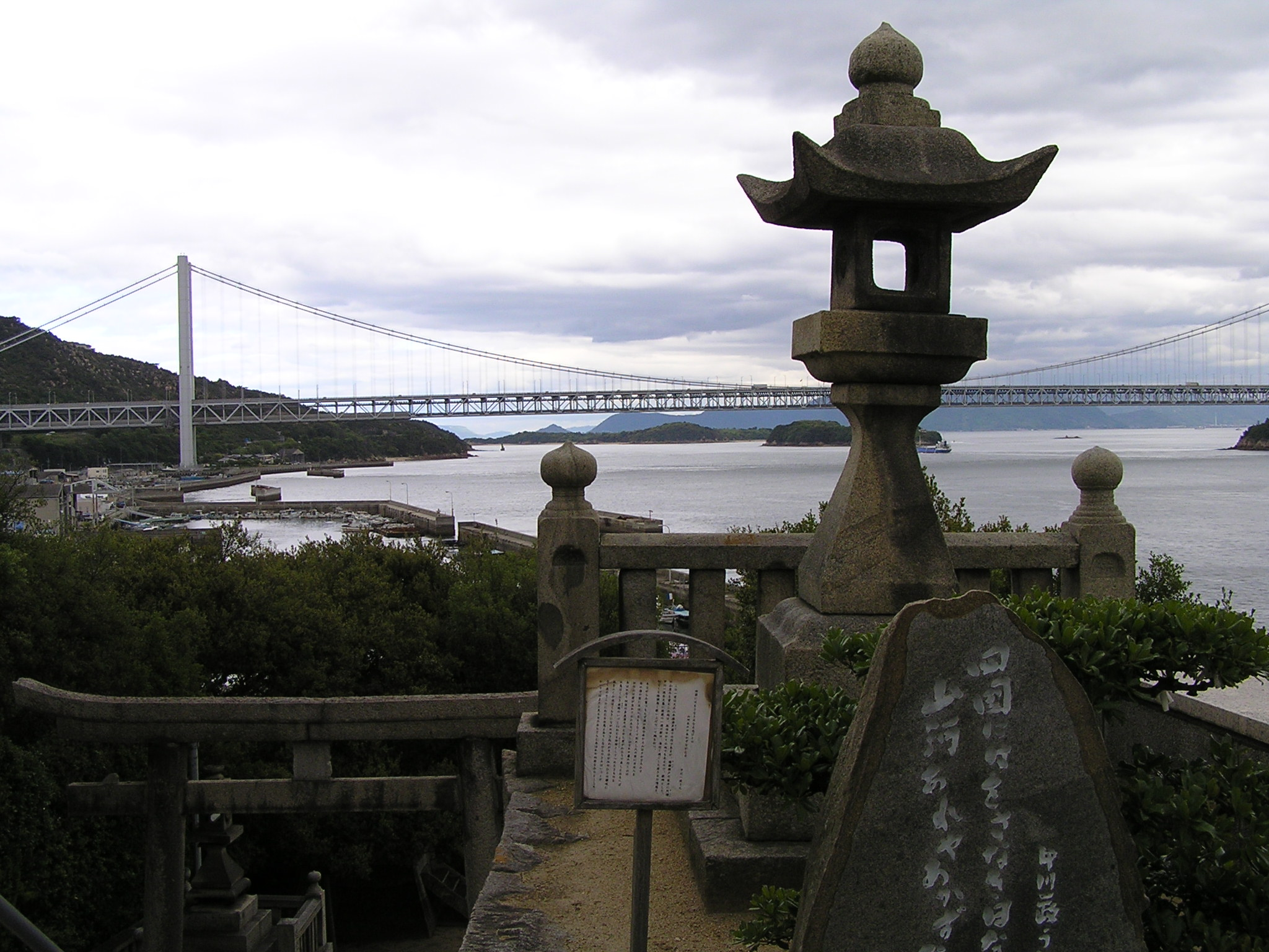 The Inland Sea is faced from the Gion Shinto shrine.